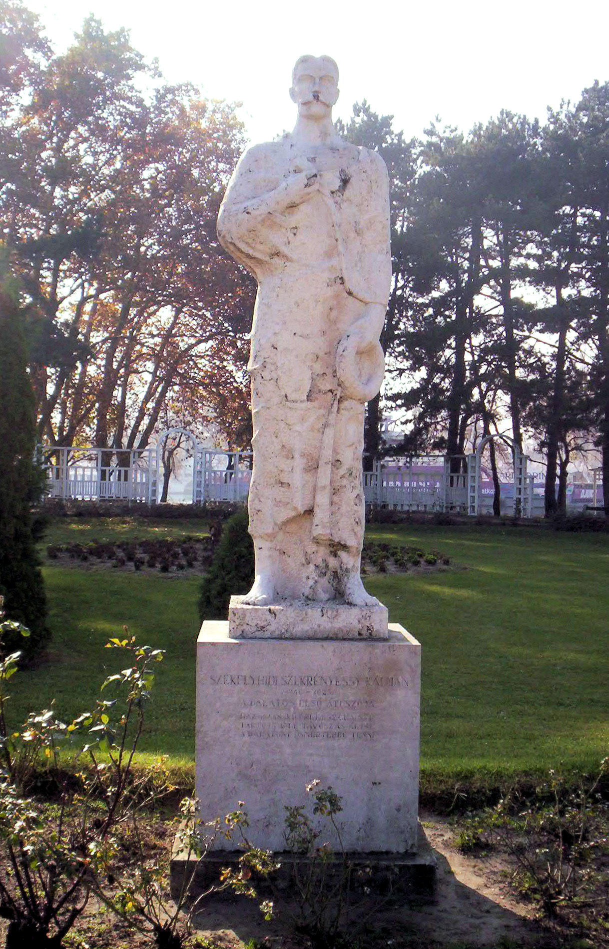 Székelyhidi Szekrényessy Kálmán statue ( He was the first man, who swam over the Balaton )